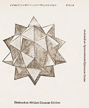 Stellated Dodecahedron, from De divina proportione by Luca Pacioli, woodcut by Leonardo da Vinci. Venice, 1509